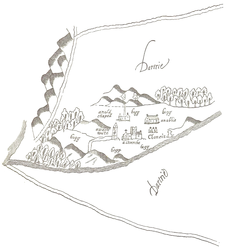 Drawing from c. 1587 of Clones, County Monaghan, preserved at the State Paper Office in London. This drawing was published in 1879 in the book by Shirley who gives following explanation (on p. 172): One of the first notices of what may be called comparatively, the modern history of the Abbey of Clones, is derived from a letter of Sir Henry Duke to Lord Burghley, dated from Dublin, the 29th of February, 1586–7, in which he says: “In my travell in those ptes I founde oute for her Matie the Abbey of Clonys in Dartry in Mc Mahowns Countrey wh was concealed from her highnes ever since the Suppression.” [..] On the 23rd of September following Queen Elizabeth granted to this same Sir Henry Duke, of Castle Jordan, in the County of Meath, Knight, the site of the dissolved Abbey of Clones on a lease for a term of twenty-one years. Its appearance at this time is well illustrated by a curious view of it preserved at the State Paper Office, of which a fac-simile is here given; with the exception of the round tower, the conical roof of which was perfect, the abbey and the chancel of the church are the only roofed buildings, nor are there any indications of houses or even huts; they were perhaps considered too unimportant to be laid down on paper.